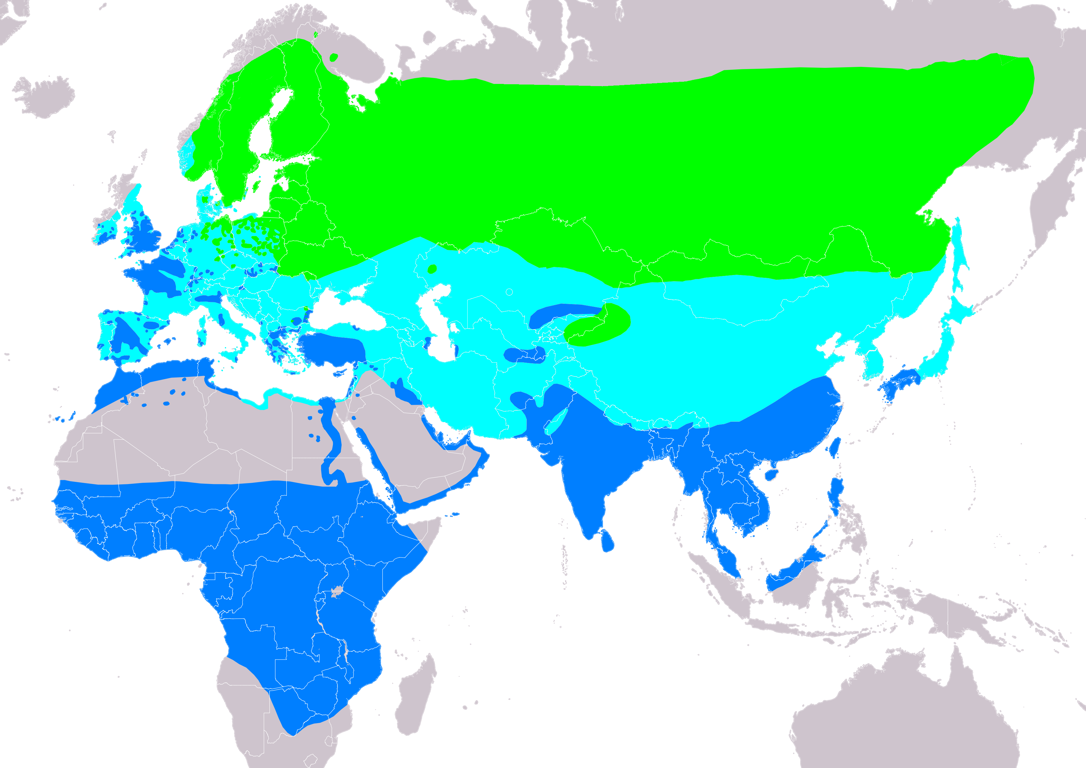 Distribution map of green sandpiper (Tringa ochropus) according to IUCN version 2019-2 ; key: Legend: Extant, breeding (#00FF00), Extant, passage (#00FFFF), Extant, non-breeding (#007FFF)